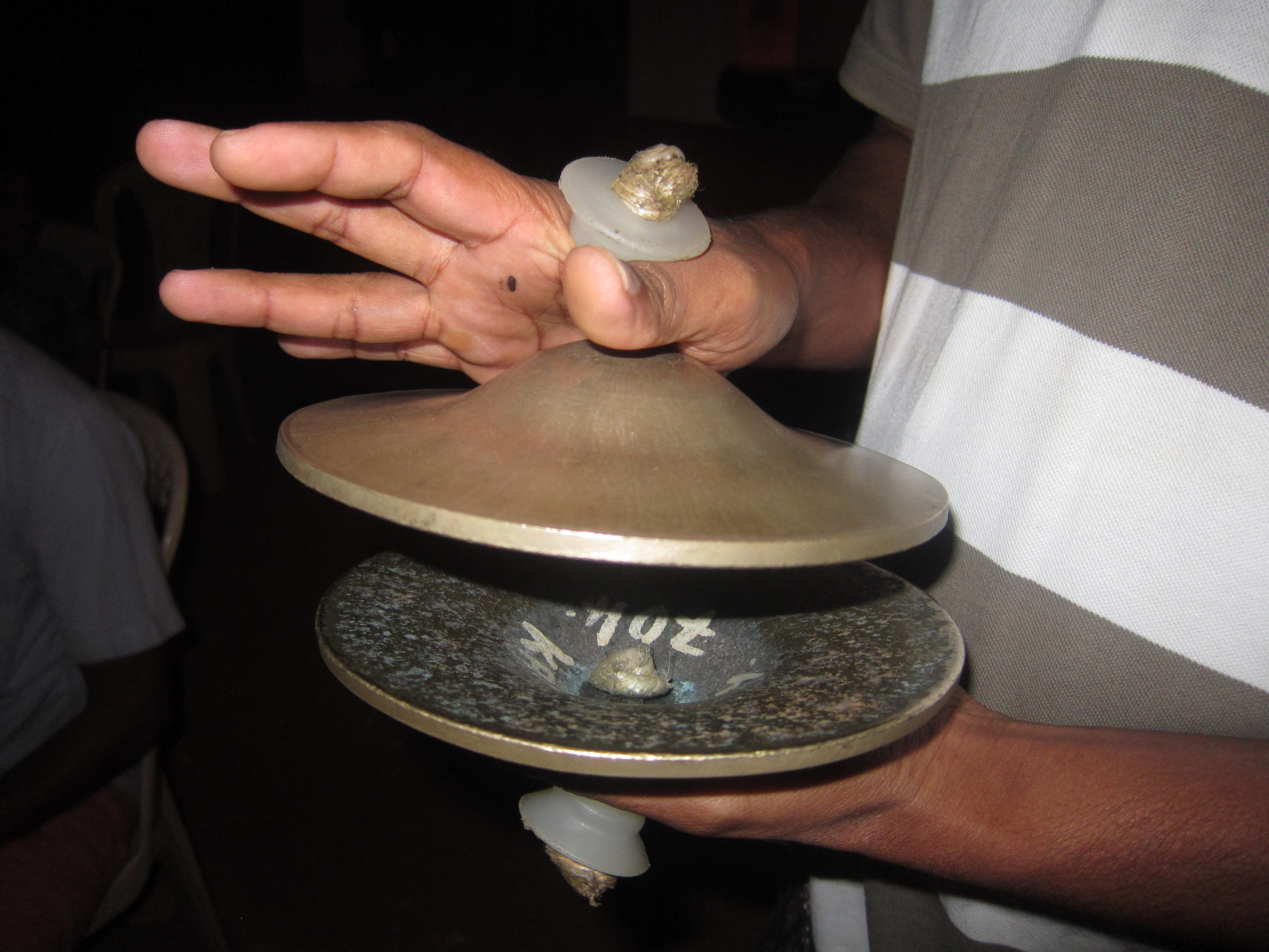 Elathalam - ഇലത്താളം ജില്ലം ജില്ലം